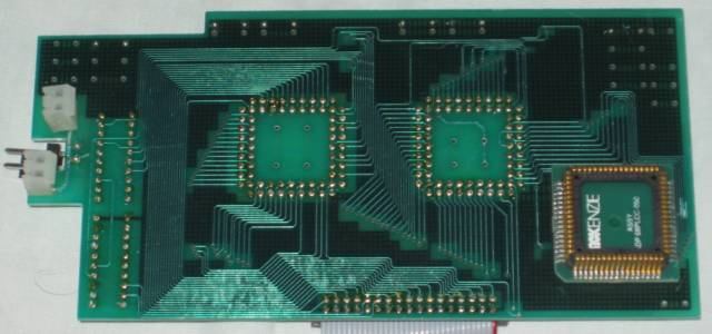 Atomwide 8Meg RAM Upgrade MEMC Board (bottom).The Atomwide 8Meg RAM Upgrade for A440, R140 & A410/1 consists of 2 boards, the first contains 2 MEMC1a ICs and plugs into the MEMC socket on the motherboard, the second contains the RAM and occupied a podule slot. The RAM board contains 8 x HM514400Z (1M x 4bits) giving 4 MB. The remaining 4 MB are on the motherboard.